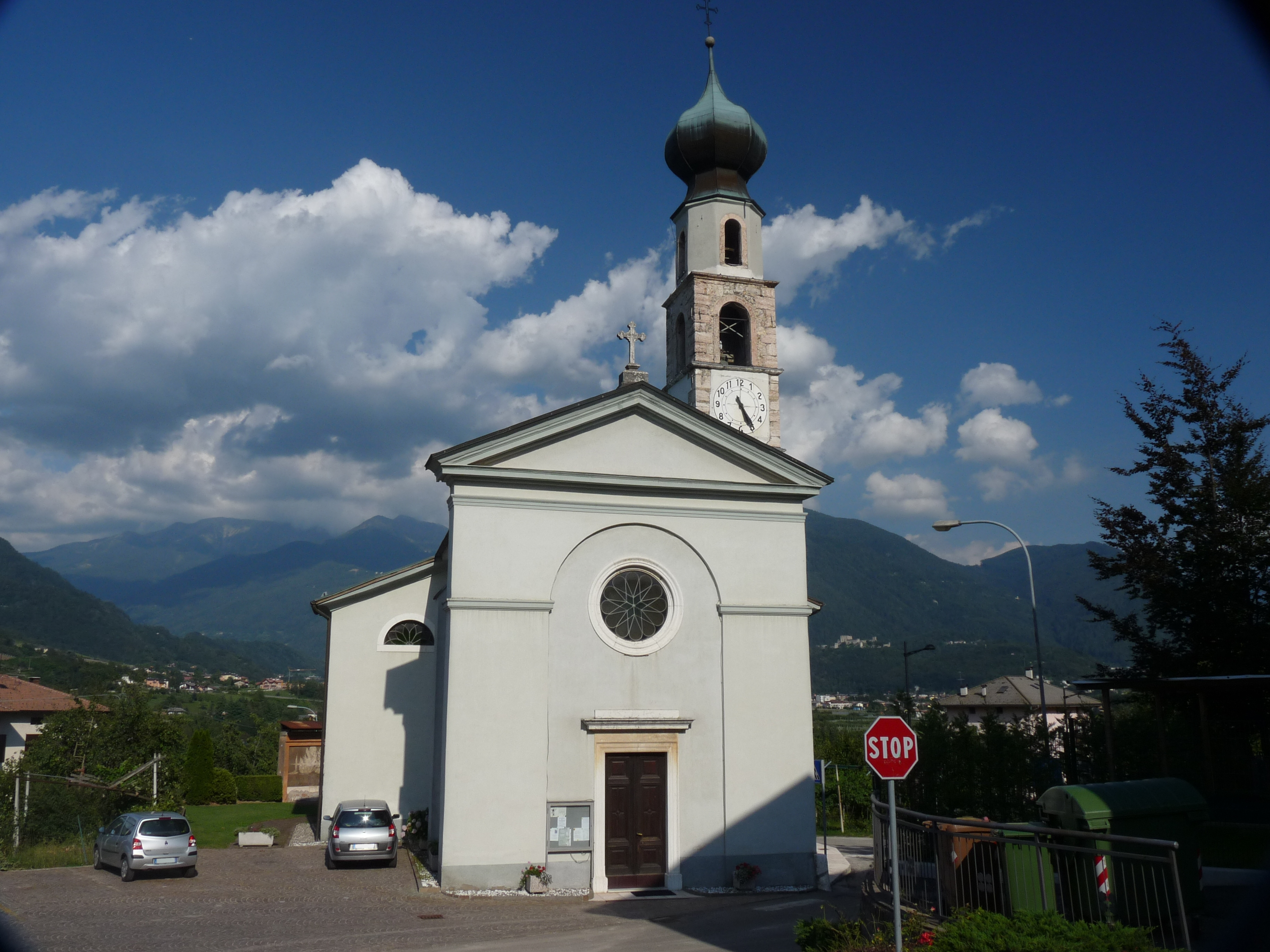 Roncogno (Pergine Valsugana, province of Trento, Italy): Saint Anne church